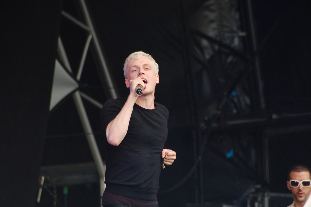 Mr Hudson performing at the Lovebox Weekender festival in Victoria Park, London in 2009